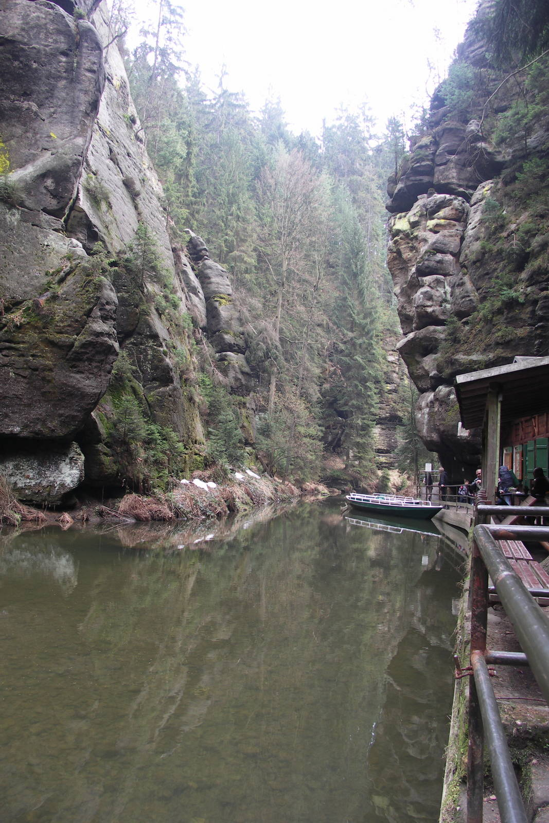 upper sluice in canyon Kirnitzschtal in the Elbe Sandstone Mountains